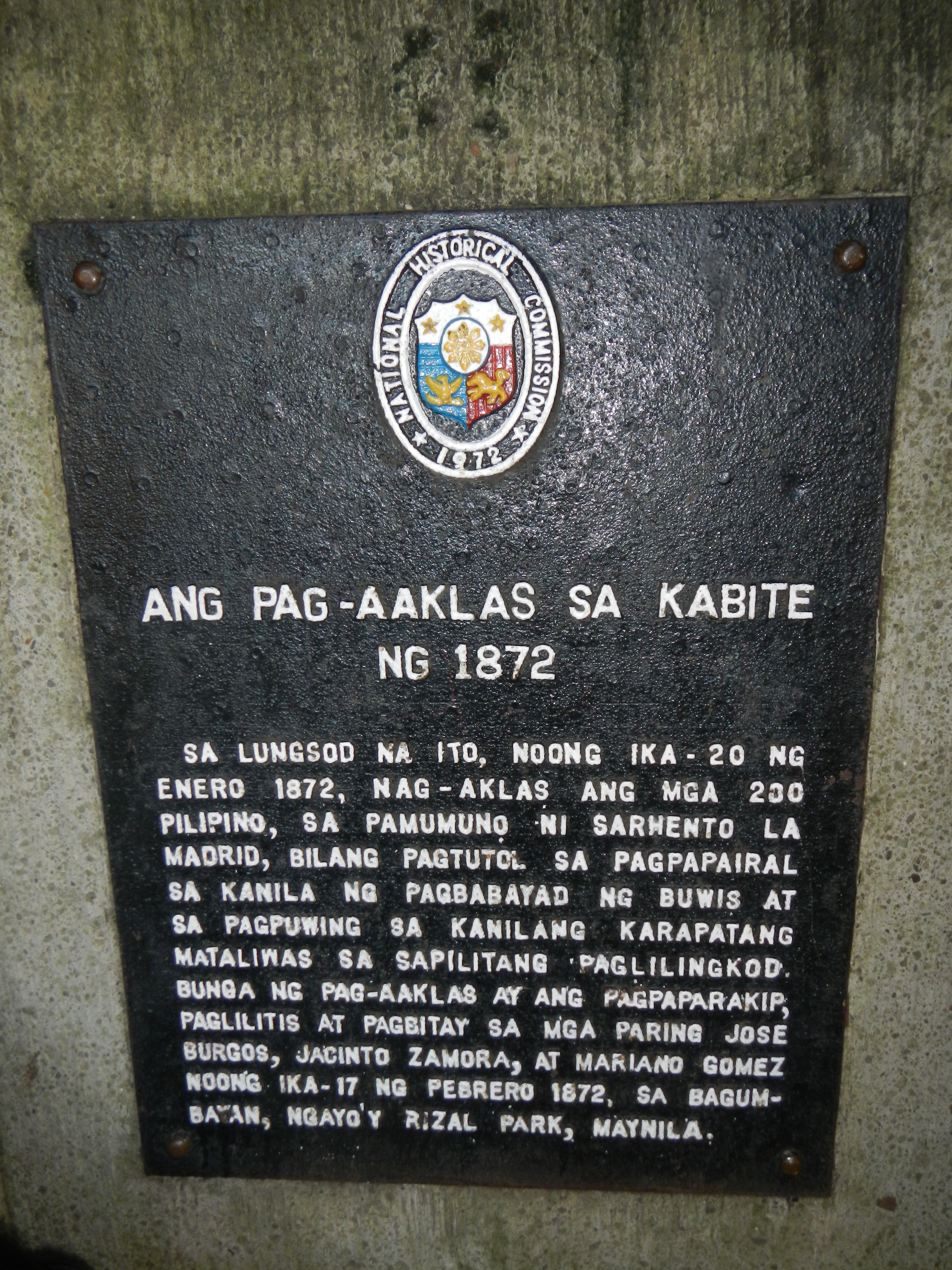 Upload Wizard photos of - Cavite City Hall Complex, its glorious interior, facade, and the New Cavite City Hall being built 20%, the Busts, Monuments of Cavite City's Martys and Leaders, the City Hall Clock Tower, the Giant Logo and Seal of the City and beside are the boats, bancas, fishing vessels and some dried fishes - (including the insolvent Metro Star Ferry facilities, building, Manila Bay, Sea and nearby the Giant Fishes Fountain Monument beside the Governor Samonte Park, the Rizal Monument in the Cavite City Park where the 1872 Cavite mutiny, January 20, 1872, 200 Filipinos under Sarmento La Madrid beside this Park at Fort San Felipe, Cavite, Philippines in the Spanish victory and Execution of Gomburza February 17, 1872 at Bagumbayan now Luneta Park happened - adjacent the - Governor Samonte Park with its baywalk, Children's Park, Samonte Statue, and 13 Martyrs Monument - "Ang Pag-aaklas sa Kabite ng 1872" or Cavite Mutiny of 1872 in front of the blue sky, the deep blue to black sea and deepest Cavite Ocean, in Cavite City, Province of Batangas, the Covered Court, and beside it is the landmark ruins of the Oldest Church 1667 Nuestra Señora de la Soledad de Porta Vaga - the Historical marker is placed here in a stone and the tree, beside the Monument of the Official Seal and Logo which is in front of the Cavite City Hall, these are Heritage and Cultural treasures of Cavite recognized by the NCCA and NHI.